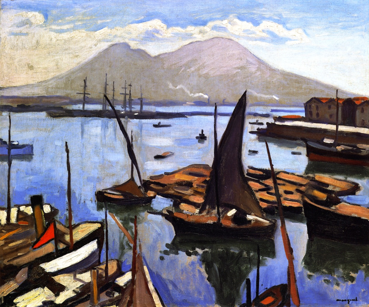 The Port of Naples